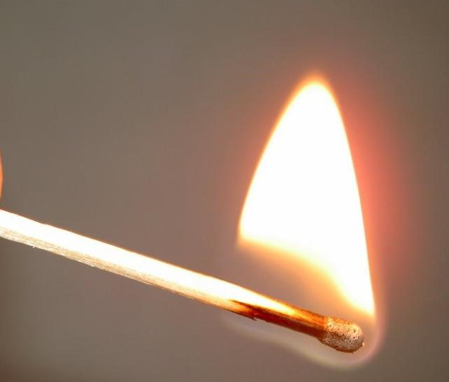 Burning Match